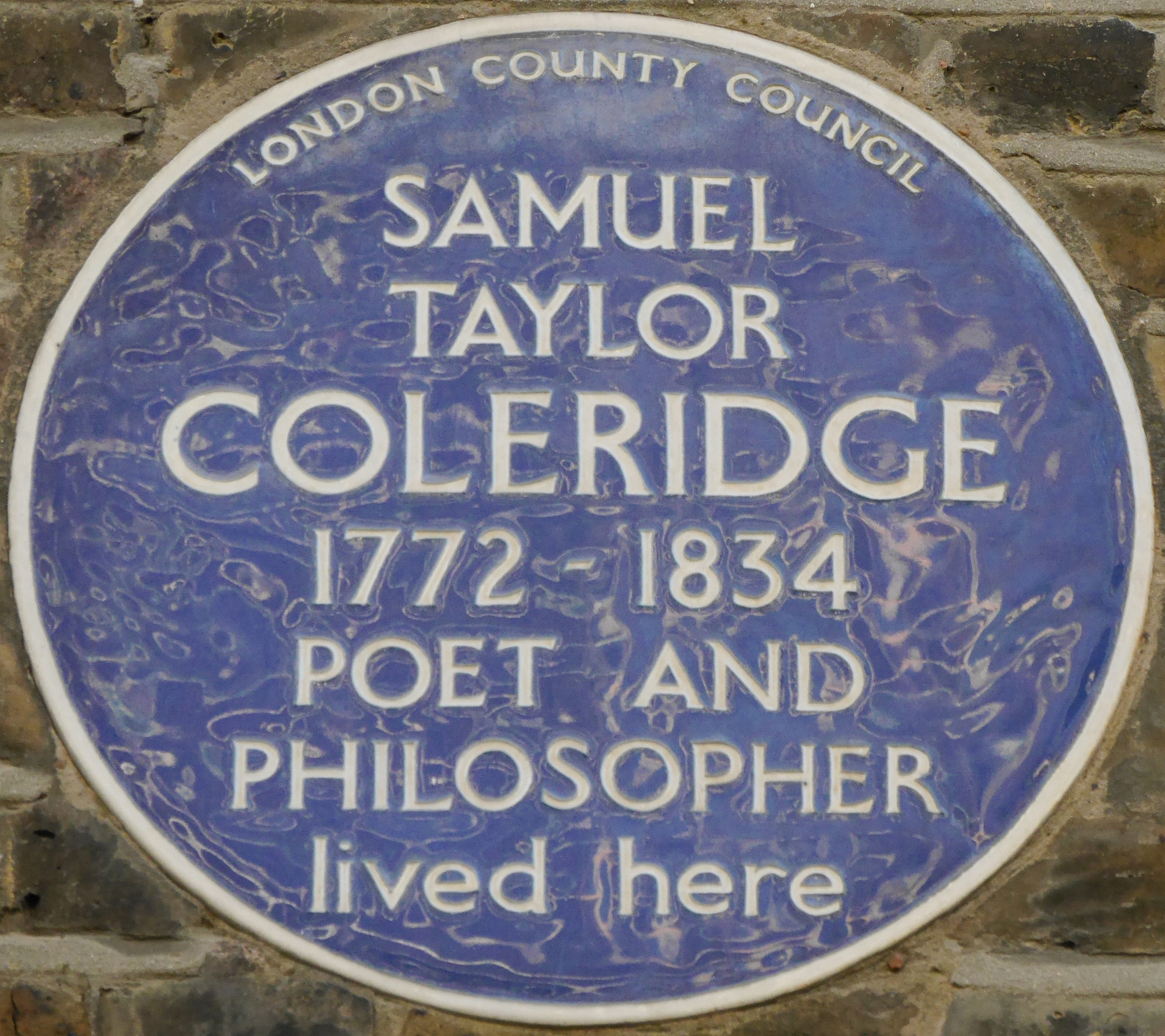 Blue plaque erected in 1950 by London County Council at 7 Addison Bridge Place, West Kensington, London W14 8XP, London Borough of Hammersmith and Fulham